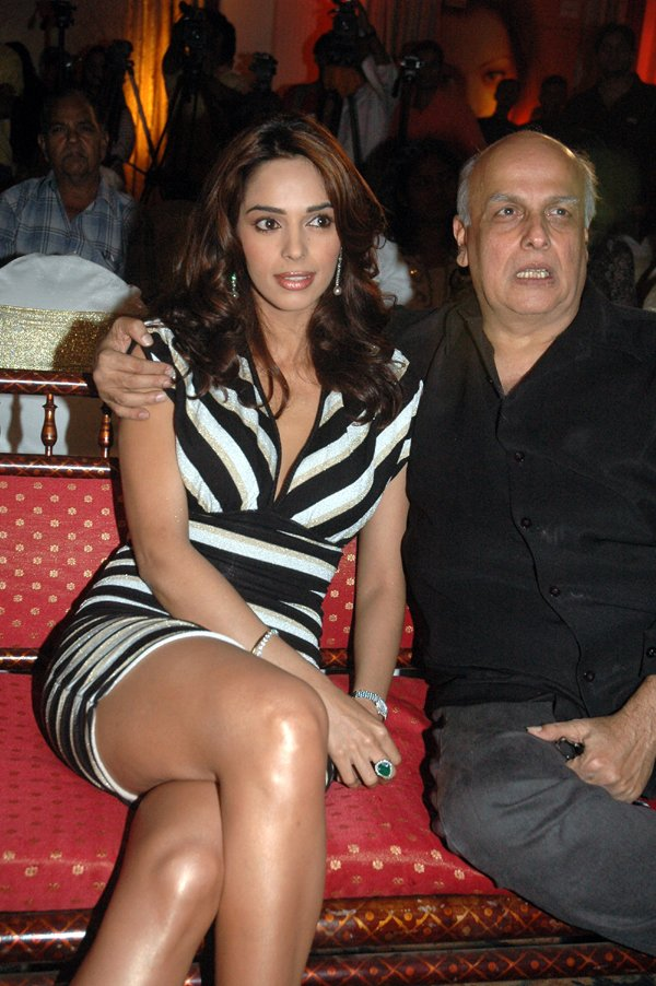 Mahurat of Awarapan